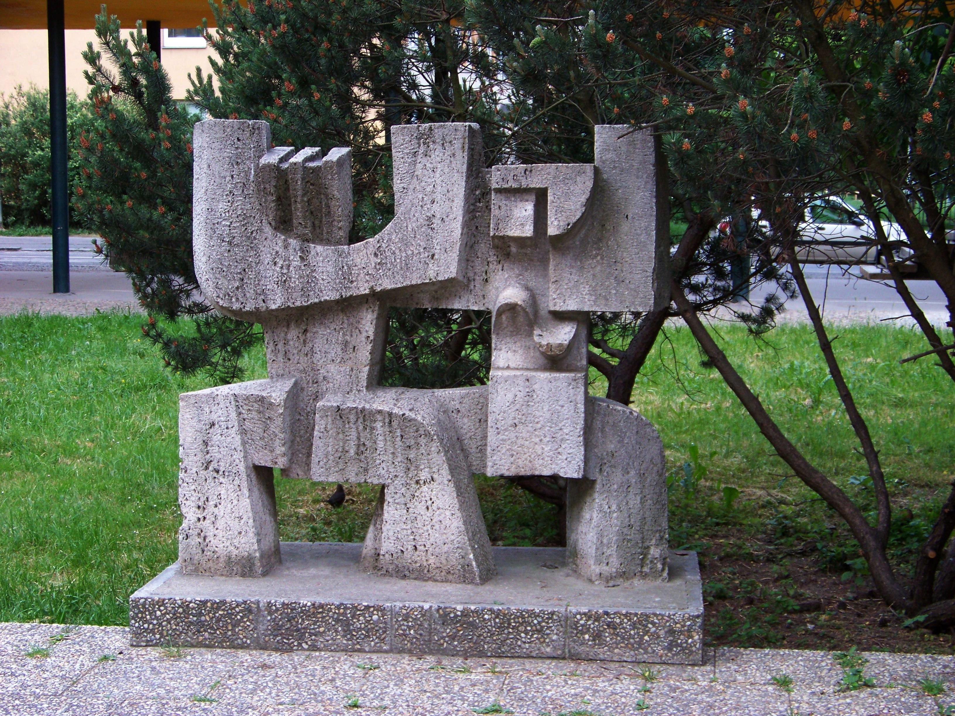 Prague-Lhotka, the Czech Republic. Novodvorská Housing Estate, Novodvorská shopping centre, a sculpture.